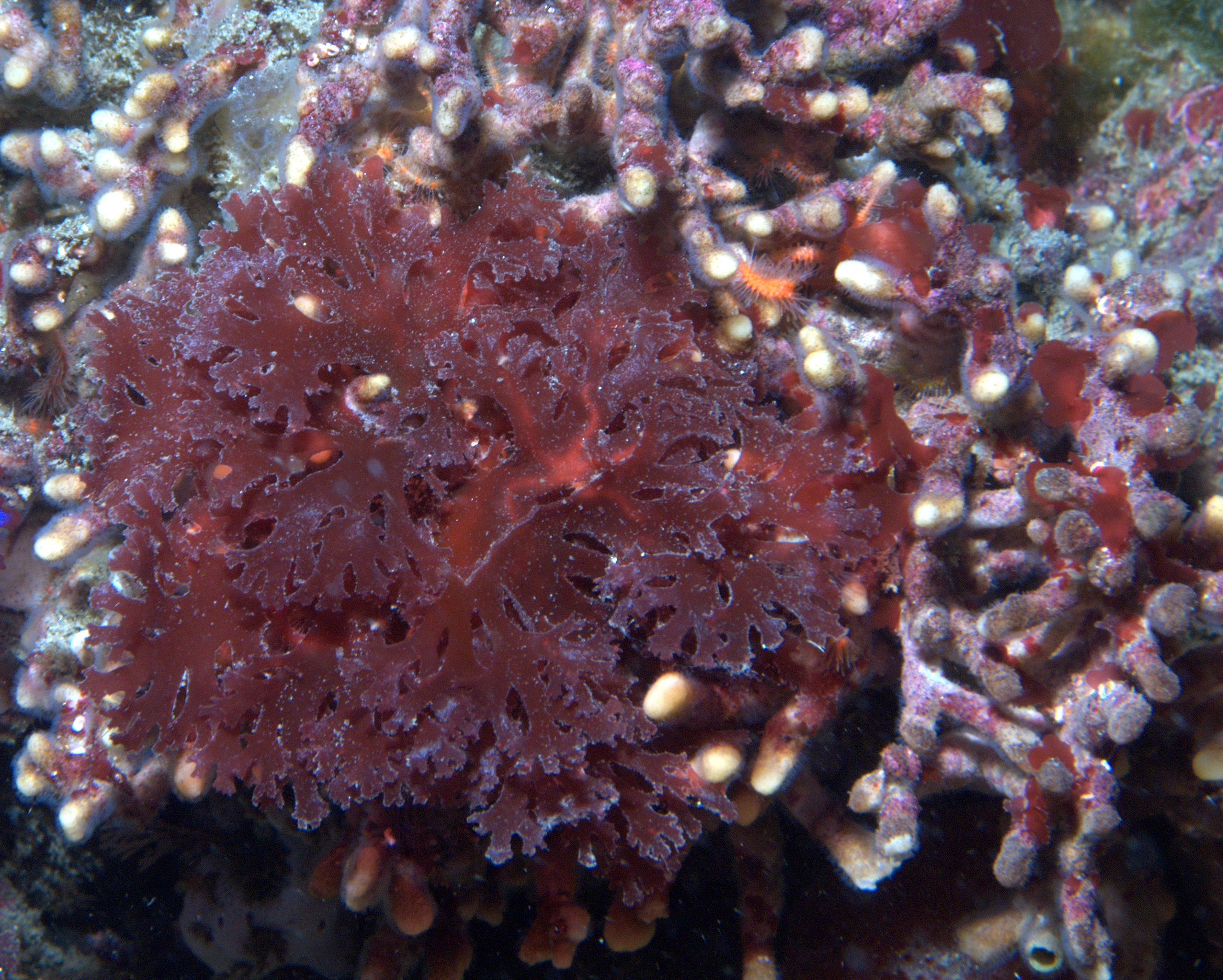 red algae Callophyllis sp., in California